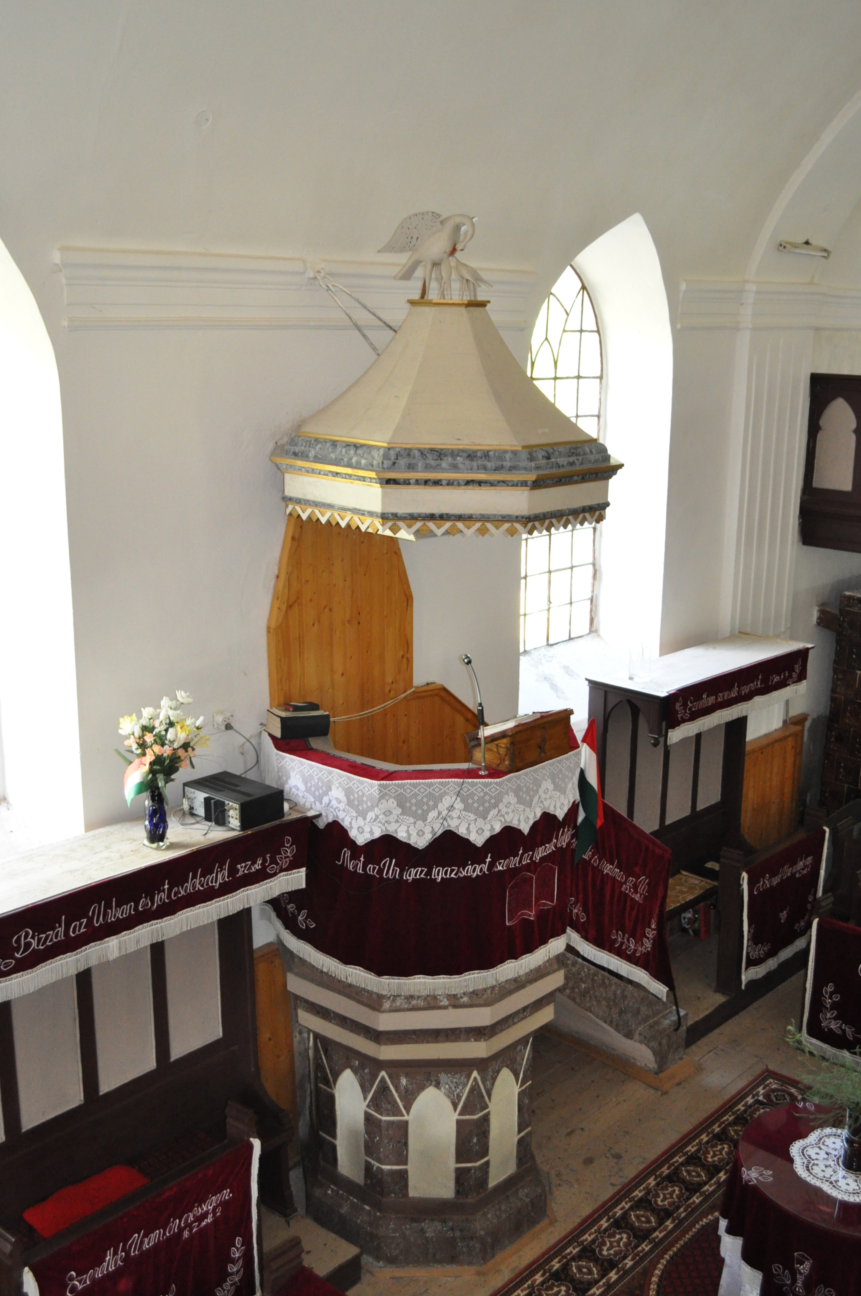 Malin, Bistrița-Năsăud county, Romania